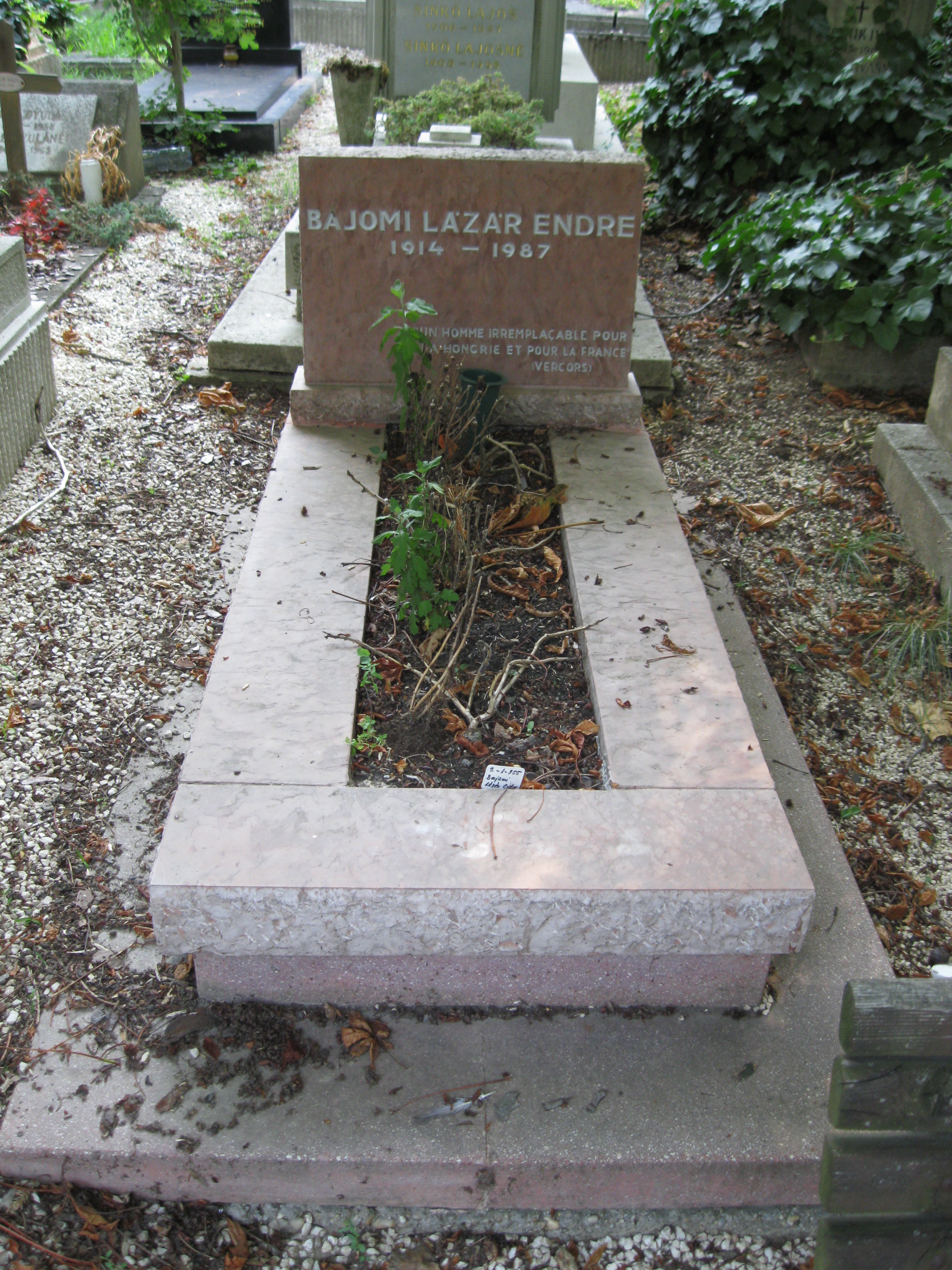 Tomb of Lázár Endre Bajomi in Farkasréti Cemetery, Budapest District XII